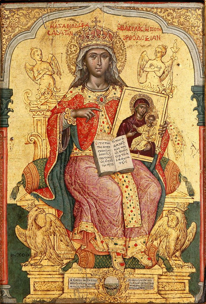 Saint Theodora, the wife of the Iconoclast Emperor Theophilos, seated in a golden throne, holds a scepter and an icon of the Virgin in the left hand. Painted by the Cretan painter Emmanouel Tzanes. 1671. Measurement: 40,5 x 29 cm Exhibit Number: ΒΧΜ 01566